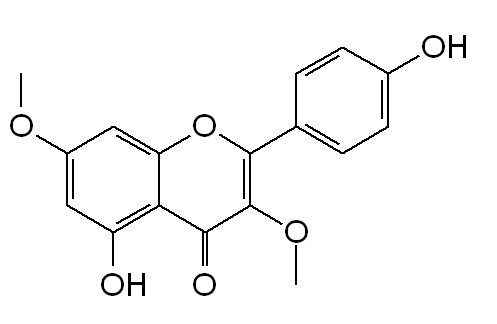 chemical structure of kumatakenin